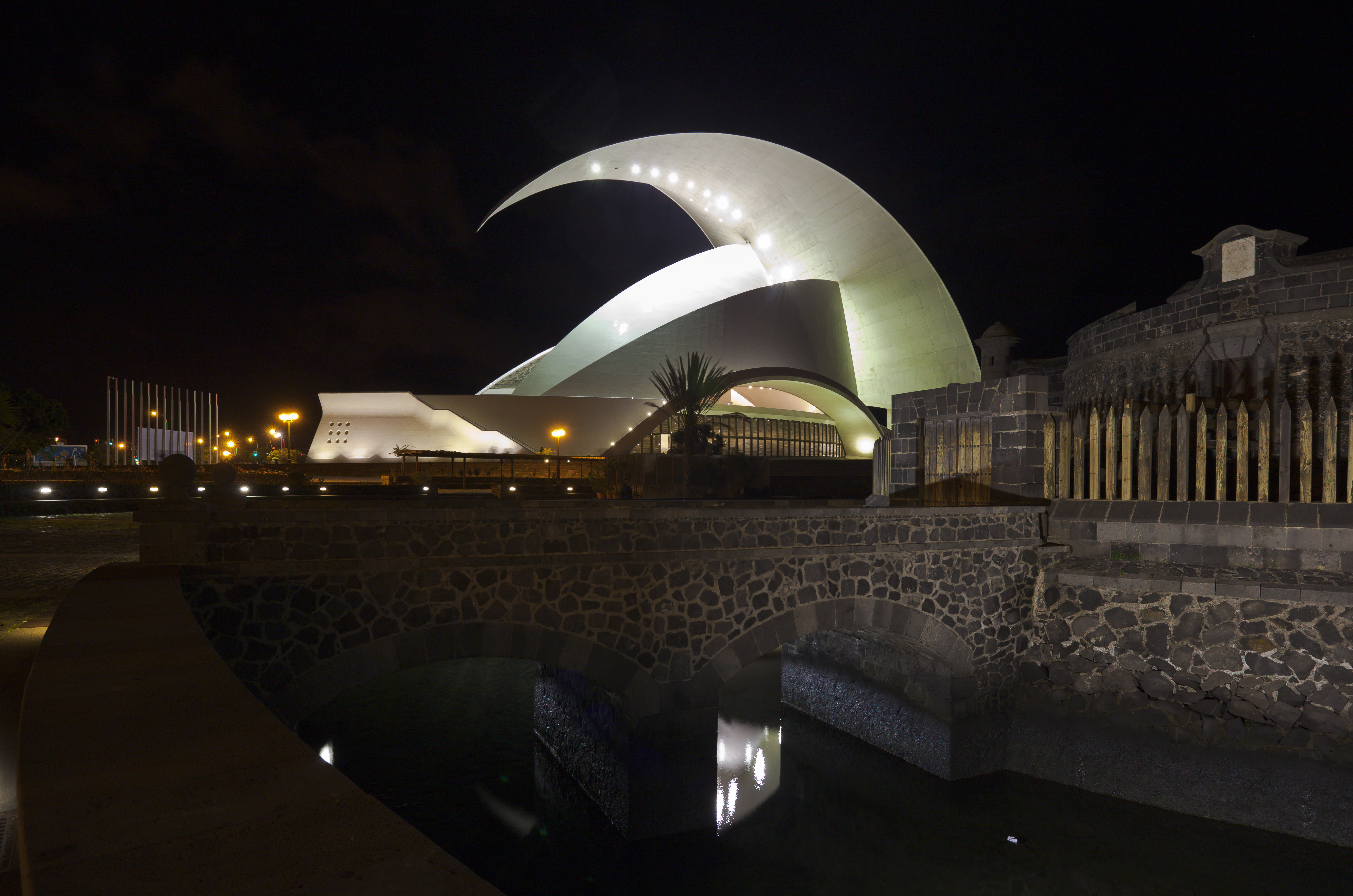 Auditorium of Tenerife, Santa Cruz de Tenerife, Spain